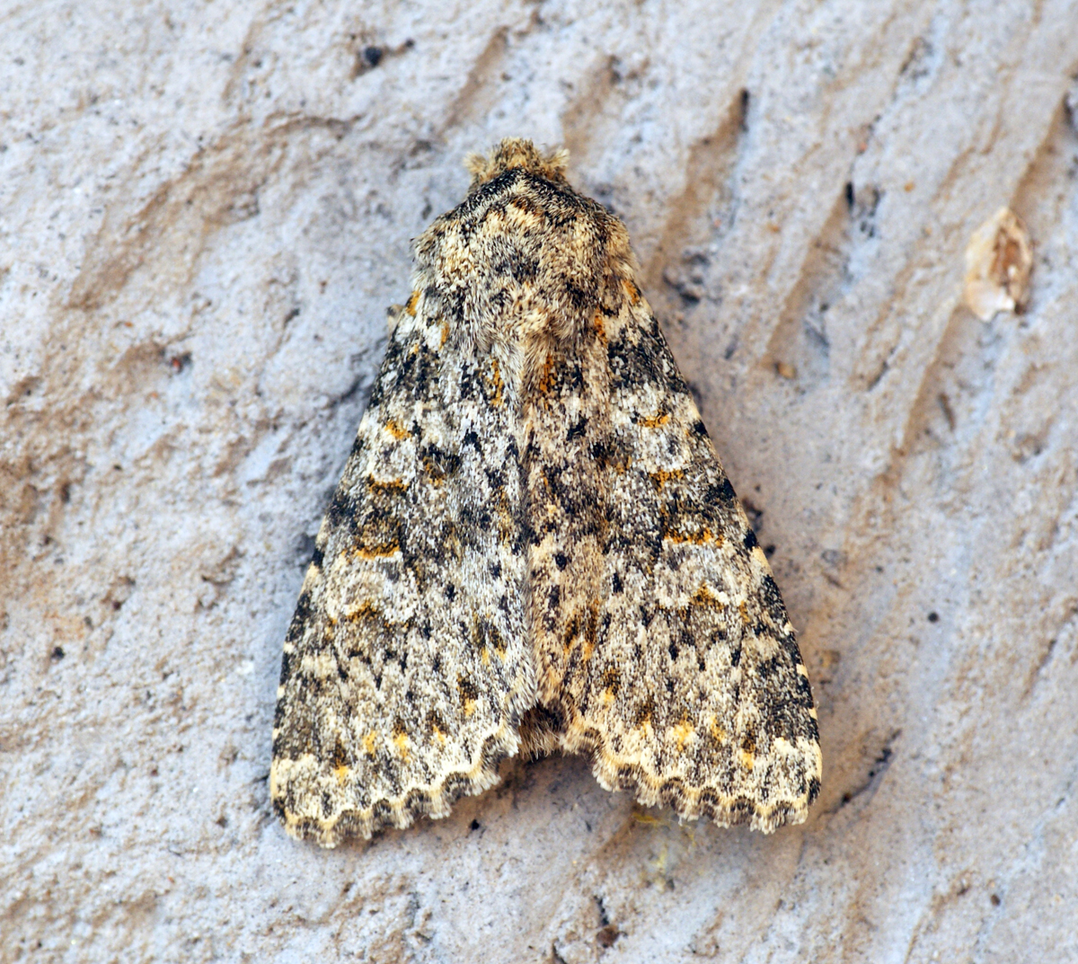 Large Ranunculus time! Freeezing this morning by recent standards with light rain until about 9pm and a very cool breeze, the temperature got down to a chilly 6 degrees come the am. Not a great deal in or around the trap but the first Large Ranunculus of the year was lovely to see I wonder if I will get as many as I got last year (10) Also the stunning half and half form of Brown-spot Pinion. A single Plutella xylostella gave a hint of some migration. Catch Report - 15/09/13 - Back Garden Stevenage - 1x 125w MV Robinson trap Macro Moths 1x Large Ranunculus [NFY] 1x Brown-spot Pinion 3x Square-spot Rustic 11x Lesser Yellow Underwing 12x Large Yellow Underwing 2x Brimstone Moth 1x Vine's Rustic 4x Lunar Underwing 1x Setaceous Hebrew Character 1x Common Wainscot 1x Snout Micro Moths 4x Epiphyas postvittana 2x Agriphila geniculea 1x Plutella xylostella